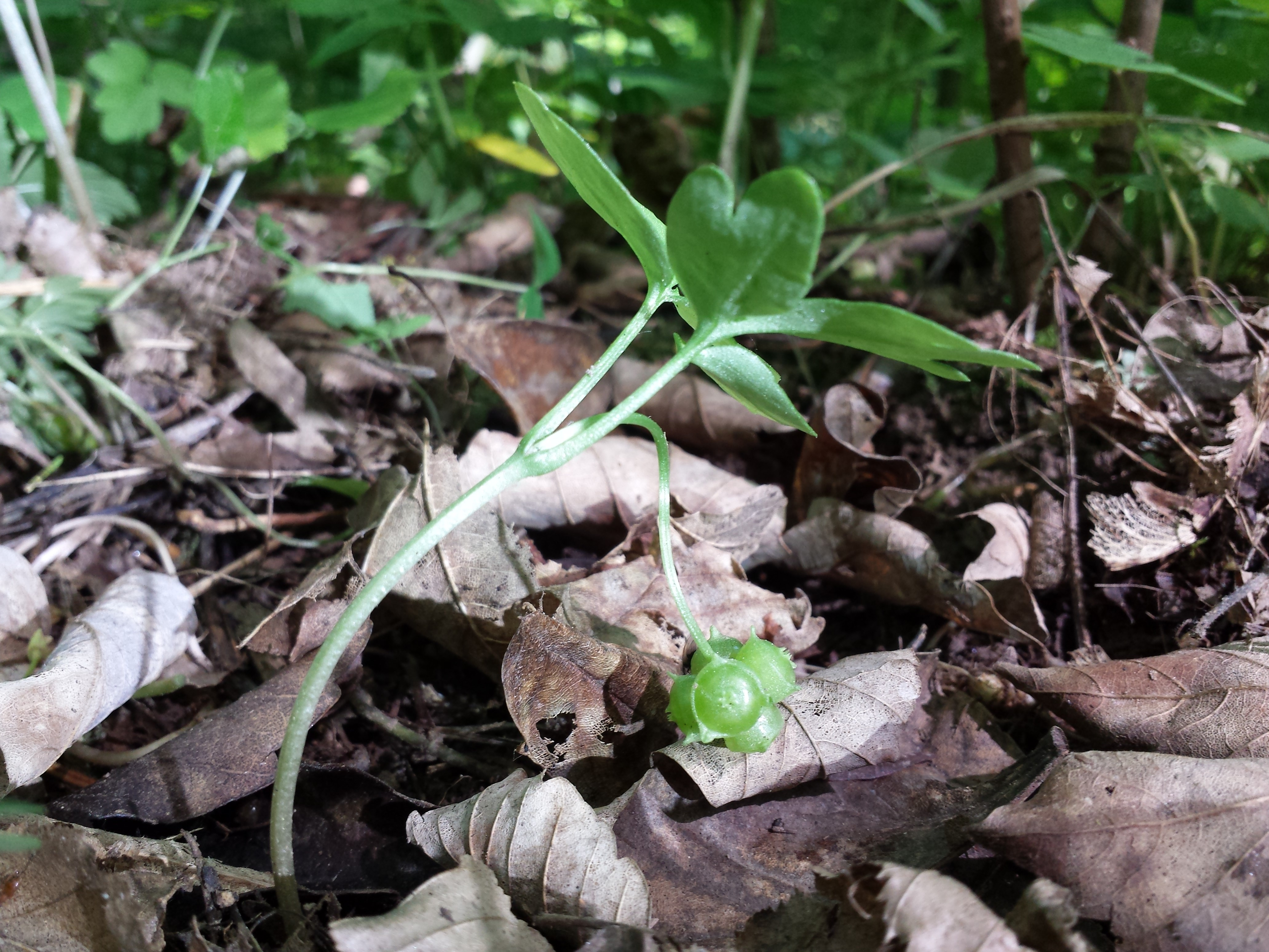 Habitus with unripe fruits Taxonym: Adoxa moschatellina ss Fischer et al. EfÖLS 2008 ISBN 978-3-85474-187-9 Location: Kreuttal, district Mistelbach, Lower Austria - ca. 200 m a.s.l. Habitat: wet aera within a dedicious forest